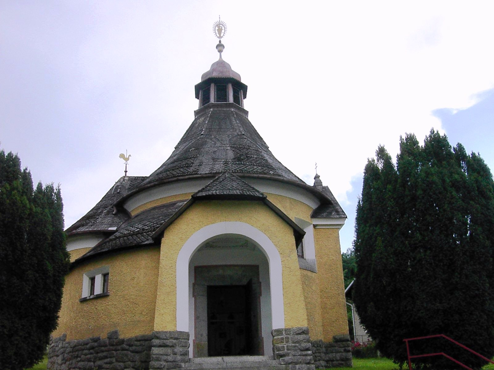 Chapel in Pec, Domažlice District, Czech Republic.